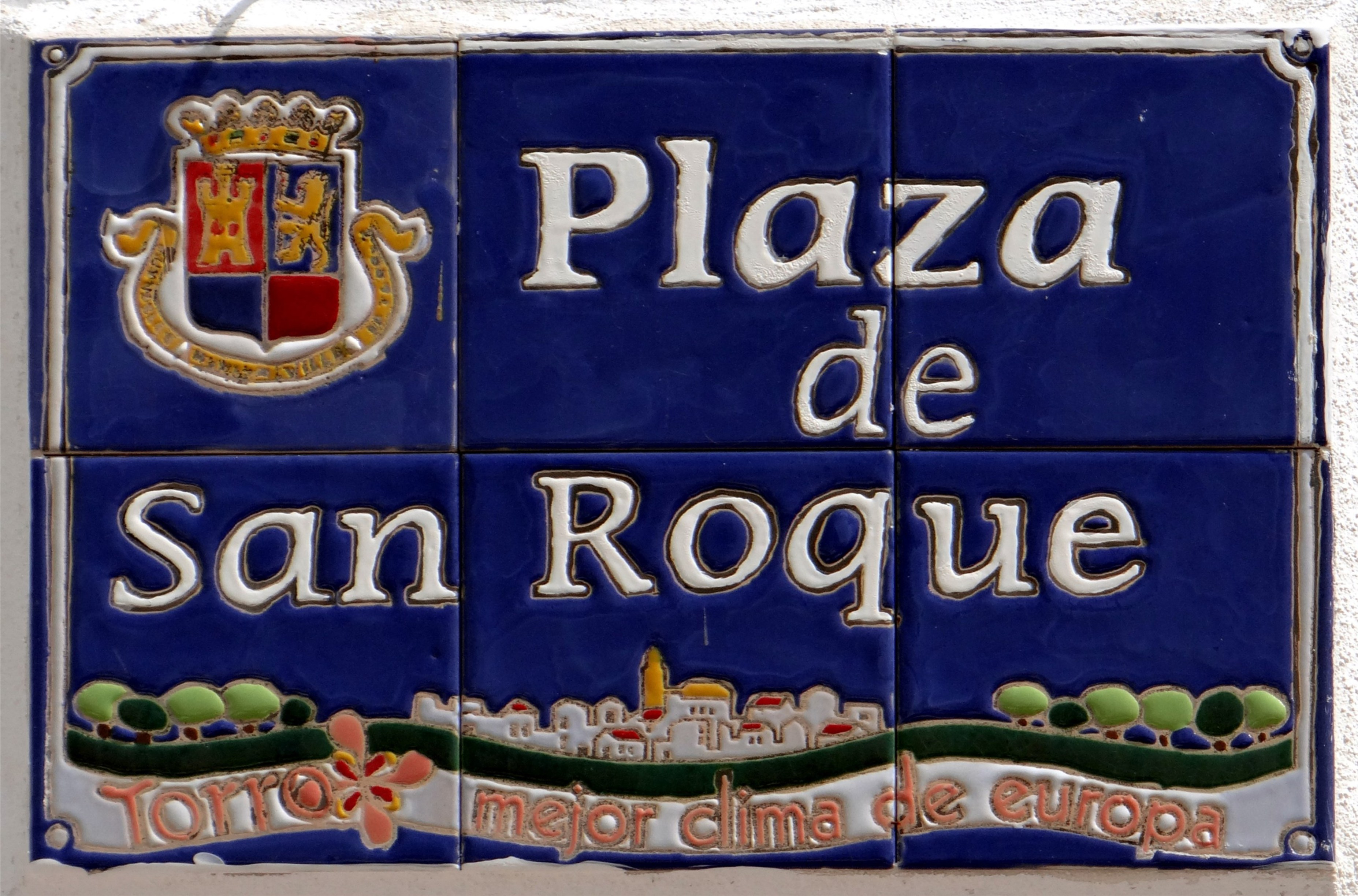 Plate touting the climate of the town, Torrox, Andalucia, Spain.